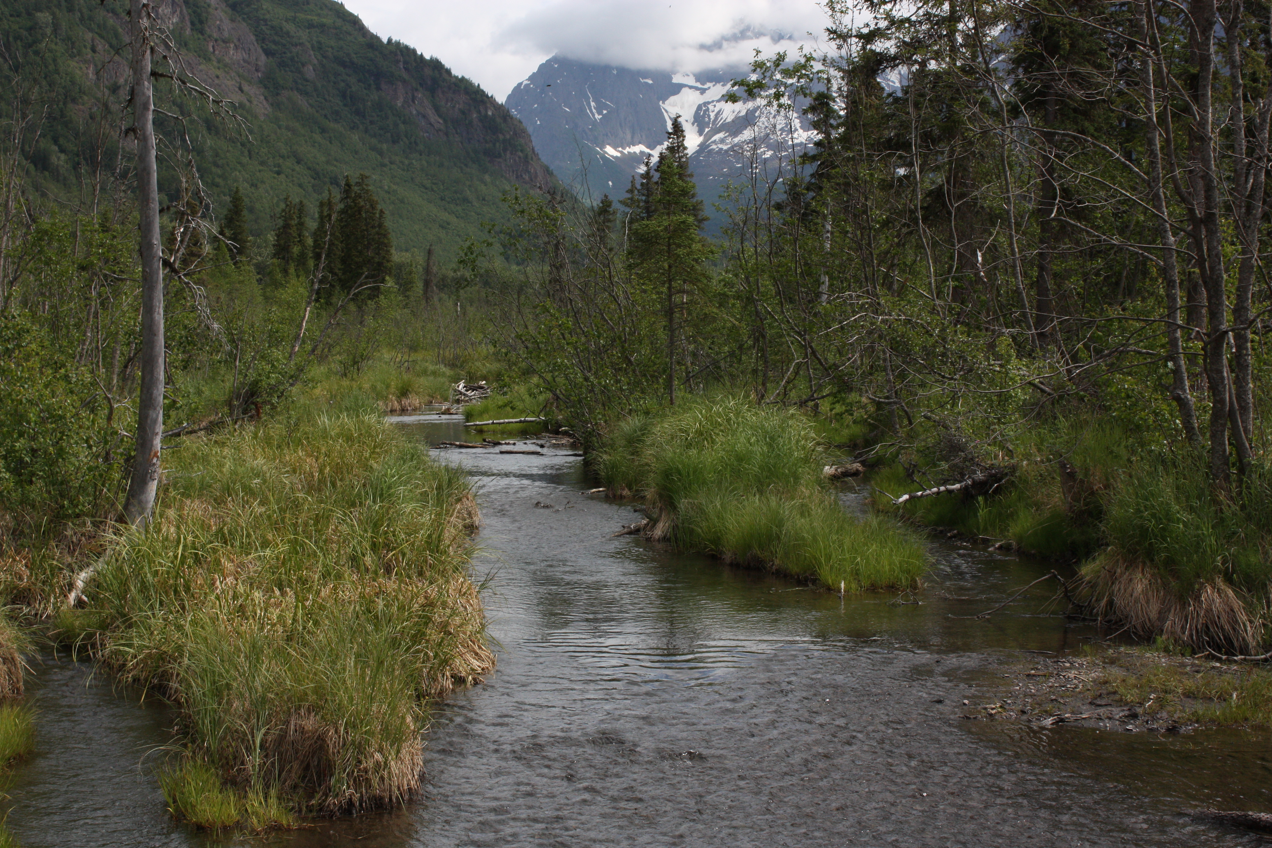 Eagle River Valley; Polar Bear Peak (6614 feet, 2016 m, center, end of valley); freshwater marsh; unnamed stream)